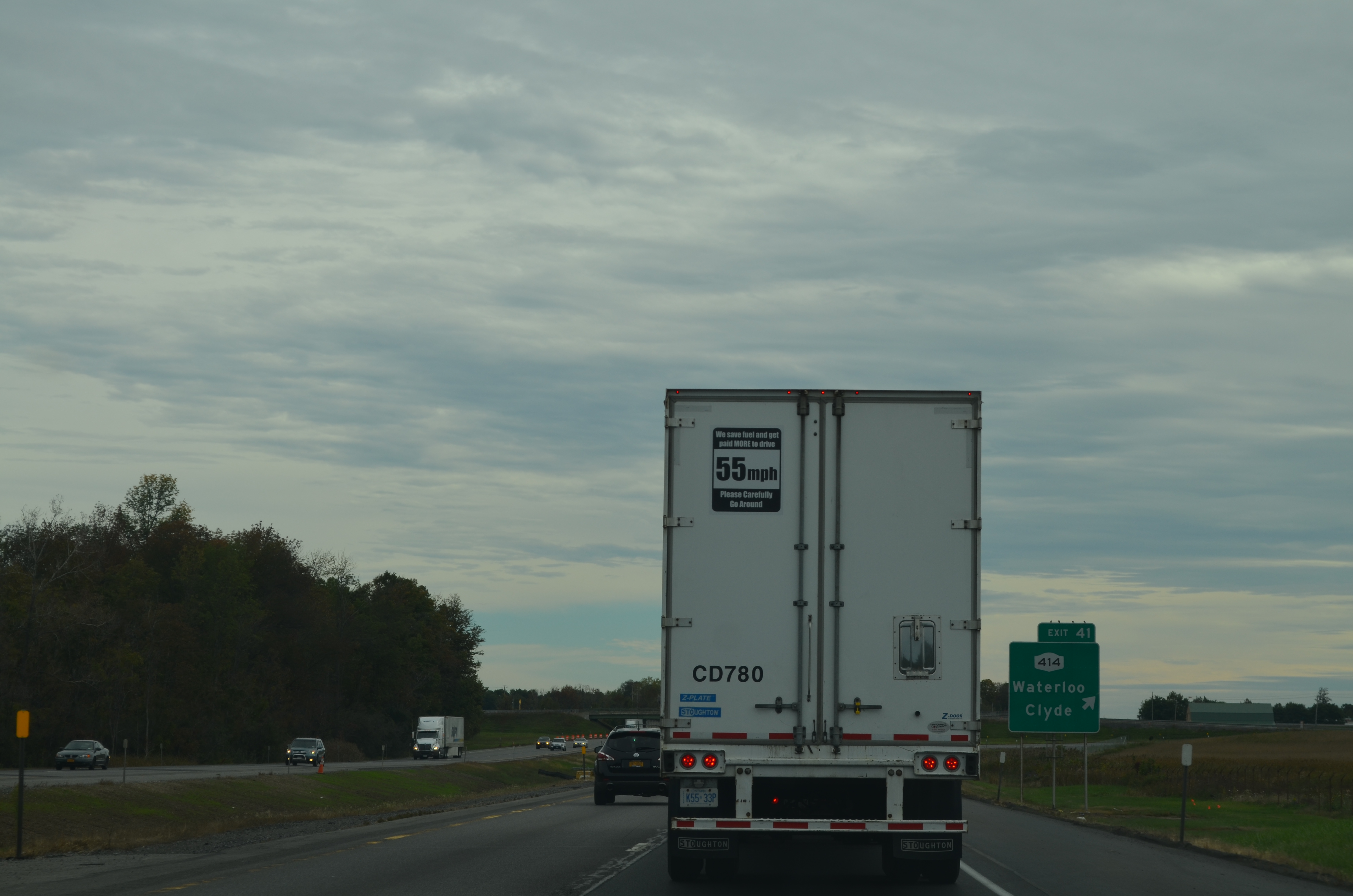 A truck limited to 55 mph with a public notice. For fuel economy. See Speed limits in the United States.